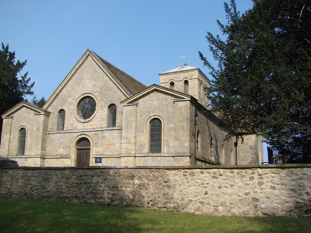 St Martin's Church, Allerton Mauleverer., near to Flaxby, North Yorkshire, Great Britain. This Church is now disused and cared for by the Church Conservation Trust.